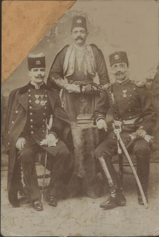 Georgi Kozhuharov in Thessaloniki 1900